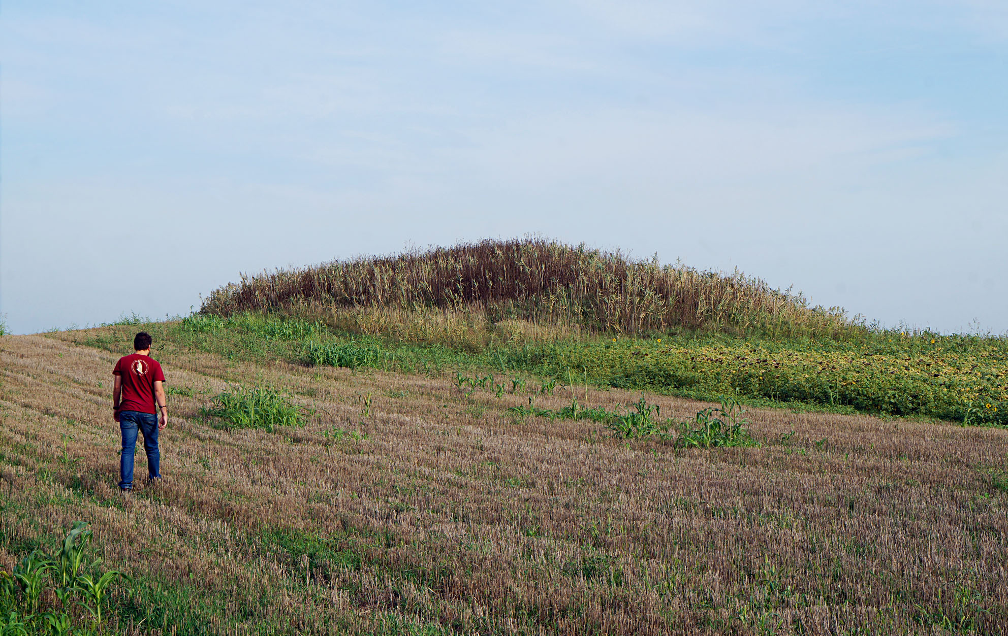 Kurgan in Vojvodina, Banat region; ID:BAN067